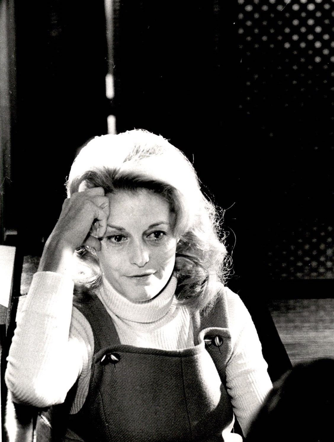 1971 press photo of Constance Towers.